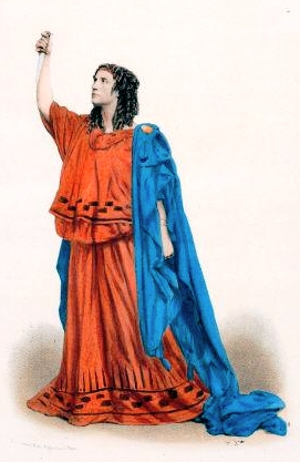 Italian actress Adelaide Ristori (1822-1906) as Medea in Médée by Ernest Legouvé (1807-1903).